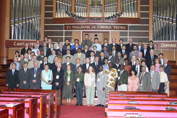 Conference of International Reformed Theological Institute, Seoul Church, 5th July in 2005